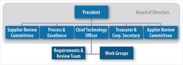 Governing body of SiLA